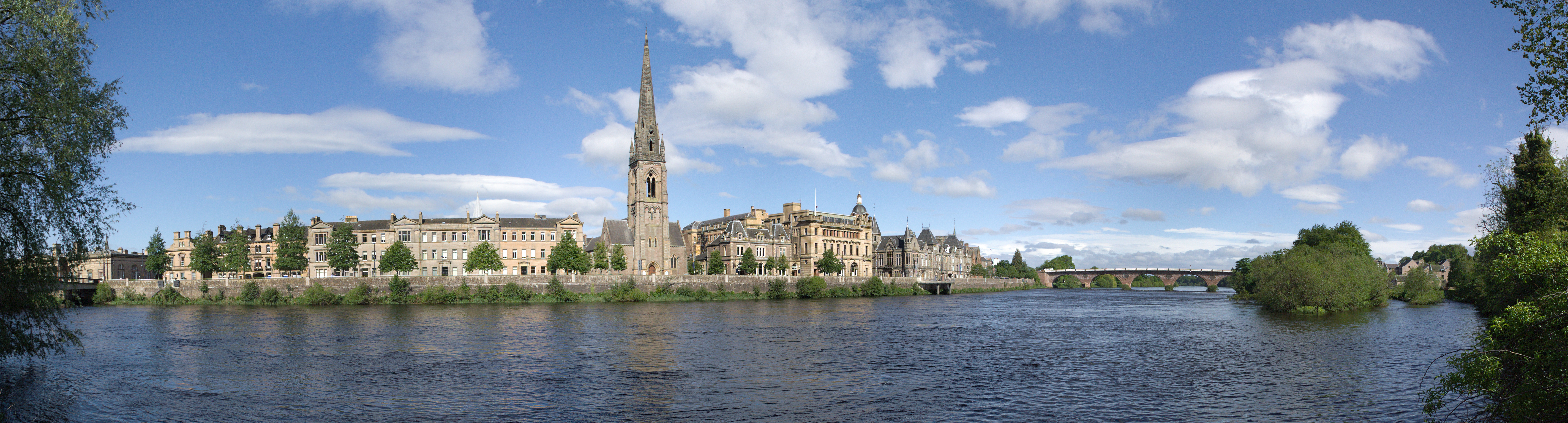 Perth, Scotland - Bank of Tay River